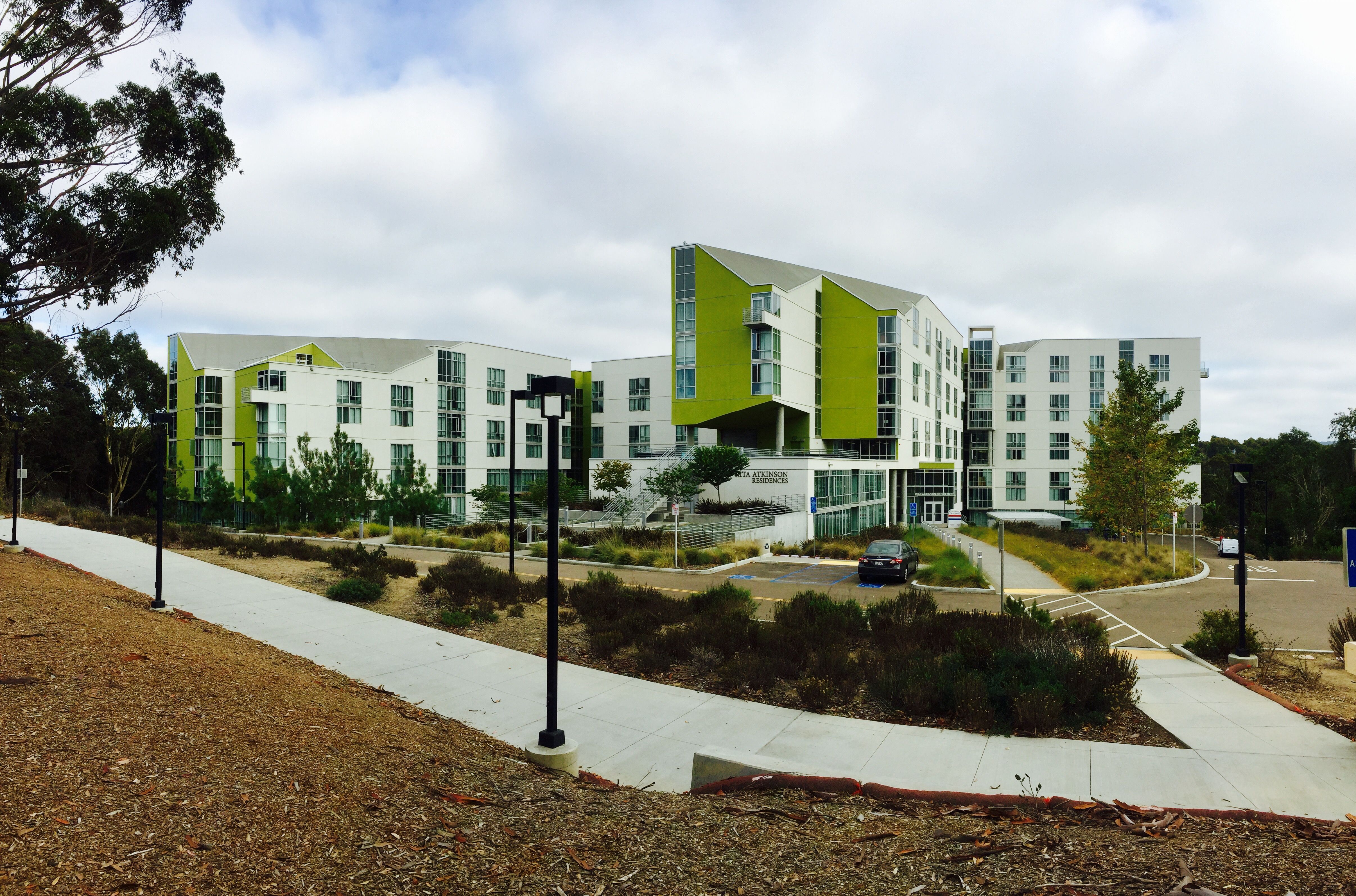 The medical student housing at the University of California, San Diego as seen looking south.